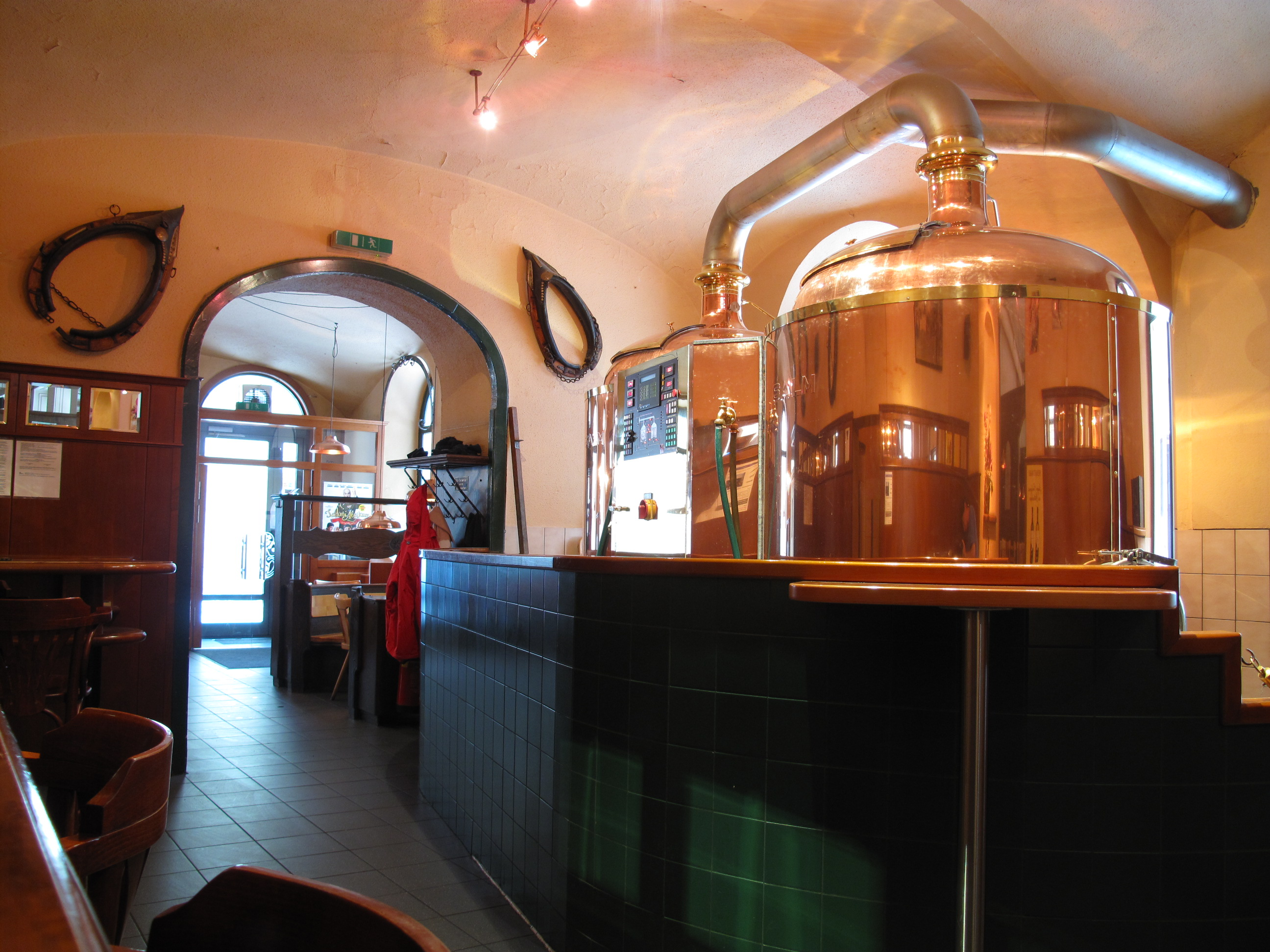 This photo shows Wieden Bräu, a typical Viennese microbrewery. The brewing equipment mostly made from copper is in the center of the establishment, frequently surrounded by tables for the customers.